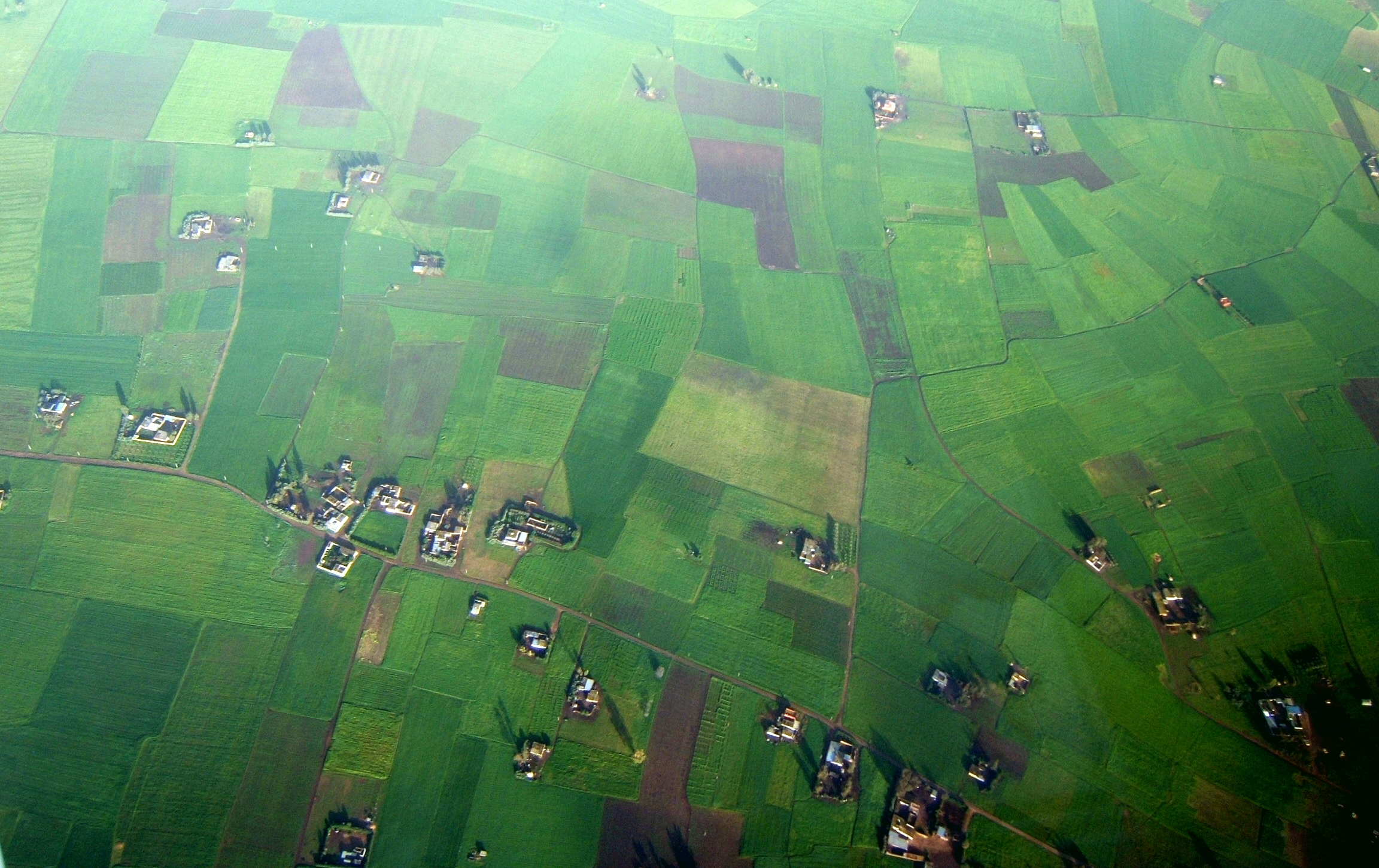 Aerial view of Morocco near Casablanca during the wet season in February